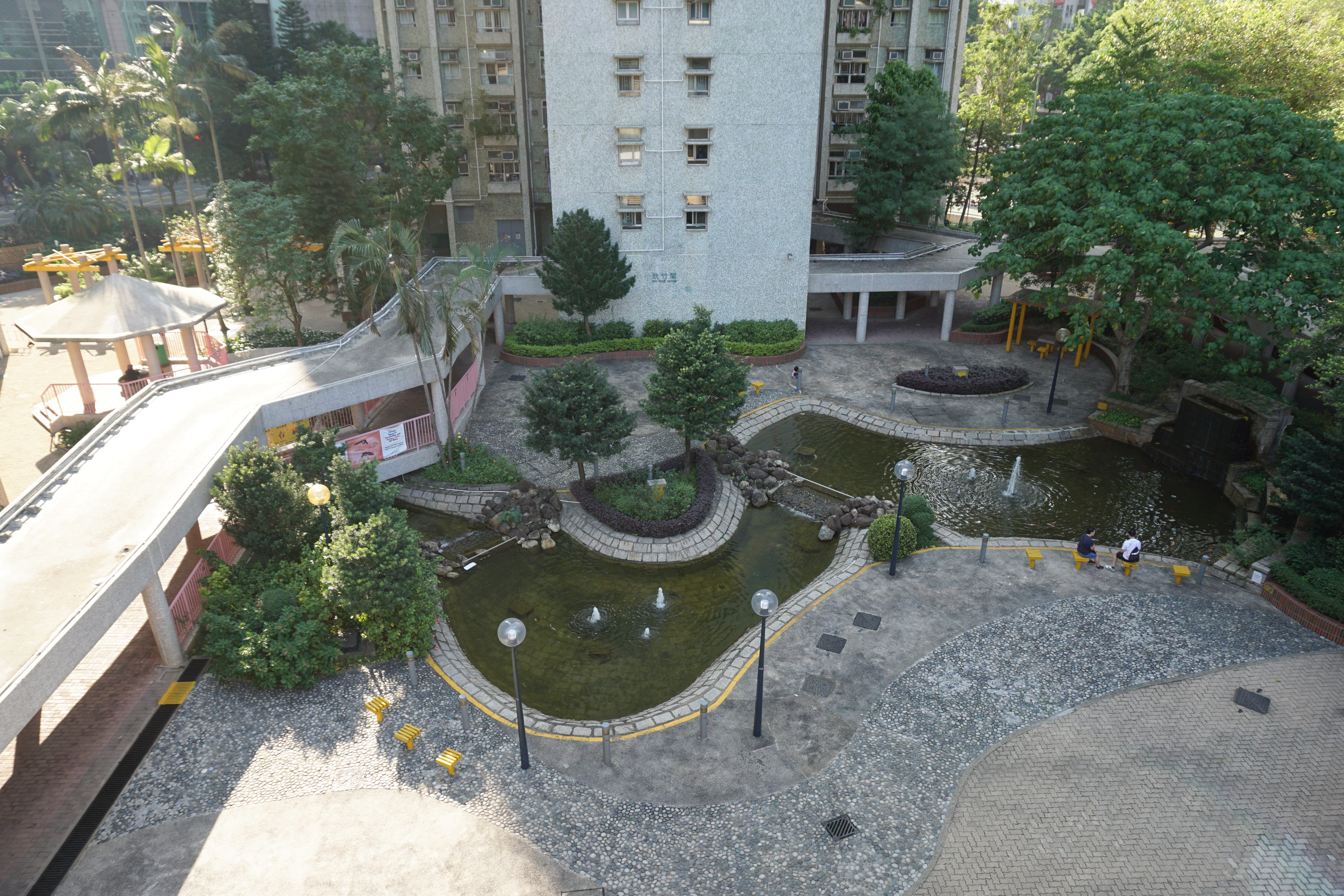 Yan Ming Court in Po Lam, Hong Kong.